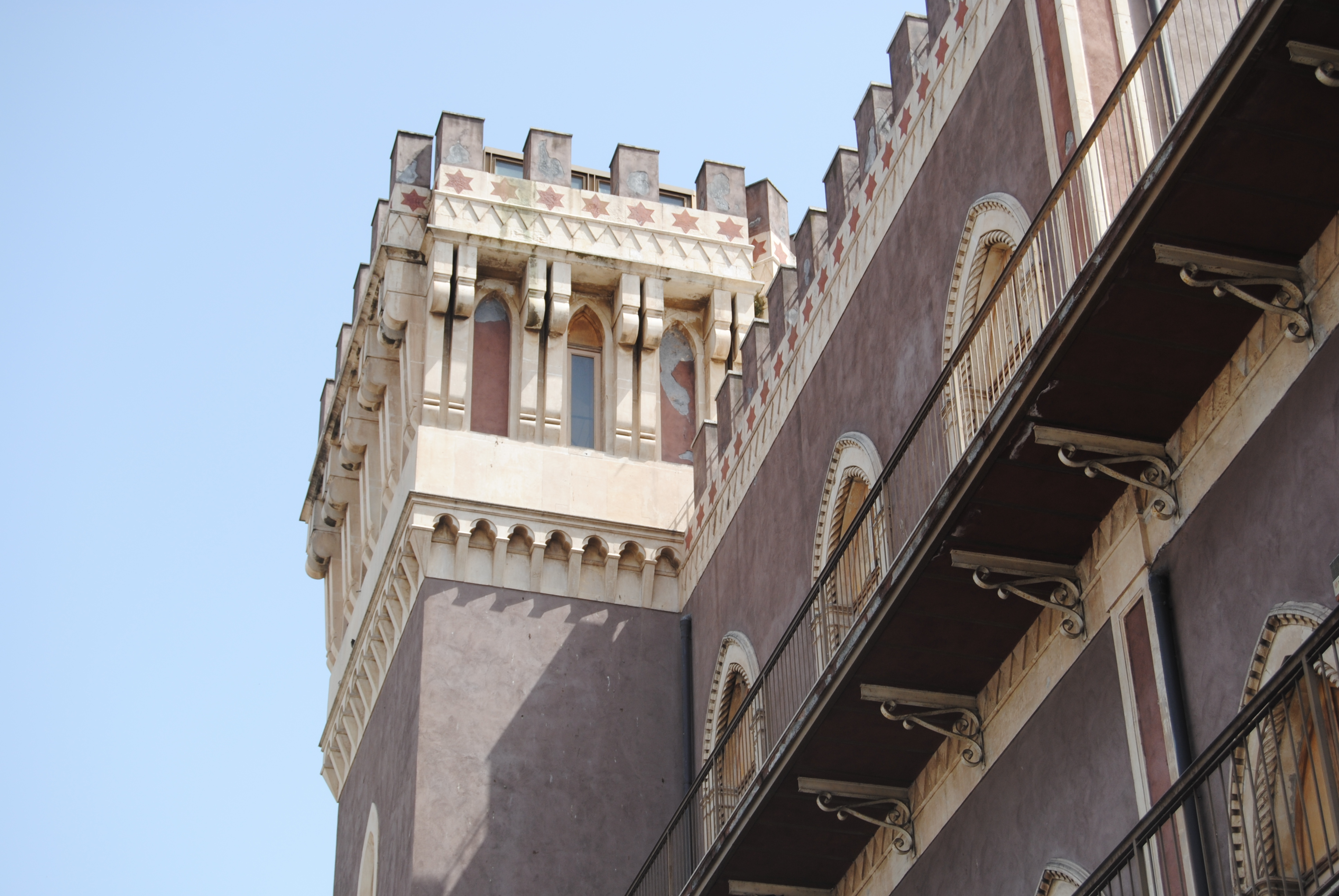 Castello della Leucatia-Torre, Catania, Italy (built in 1911).